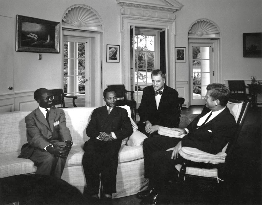 Abbie Rowe, scanned from original 8x10 file print on DAMS8 by DD.AR7468-C19 September 1962Meeting with the President of Rwanda, 5:04PM.Please credit "Abbie Rowe. White House Photographs. John F. Kennedy Presidential Library and Museum, Boston"